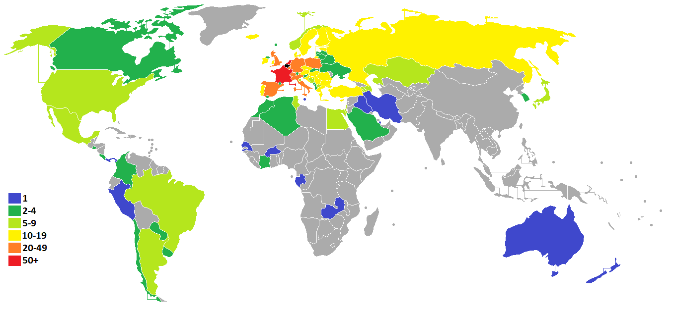 Map with frequency of official international association football matches between Belgium (indicated in black) and their opponents